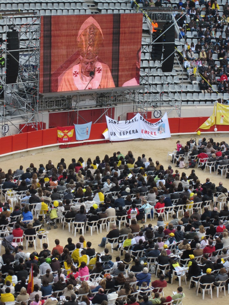 Giant screen in the stands at the Monumental bullring in Barcelona, the day of the visit of Benedict XVI in Catalonia.